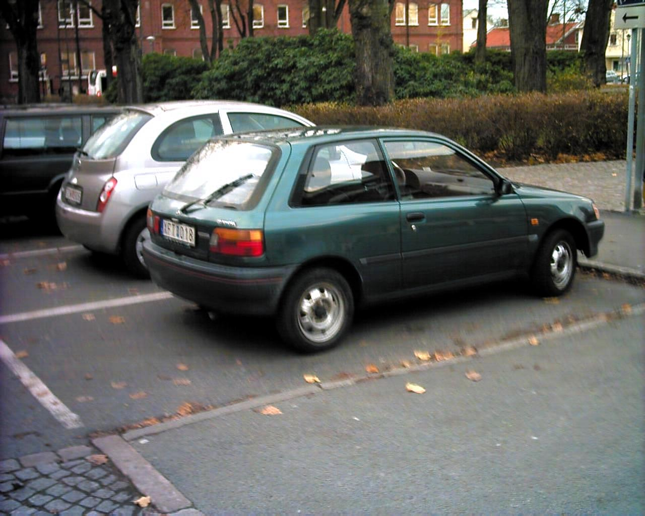 1994 Toyota Starlet 1.3 i (EP81L-AGMNEC) 55kW JT152EP8200. Photo taken by me in Jönköping 2005-11-10.